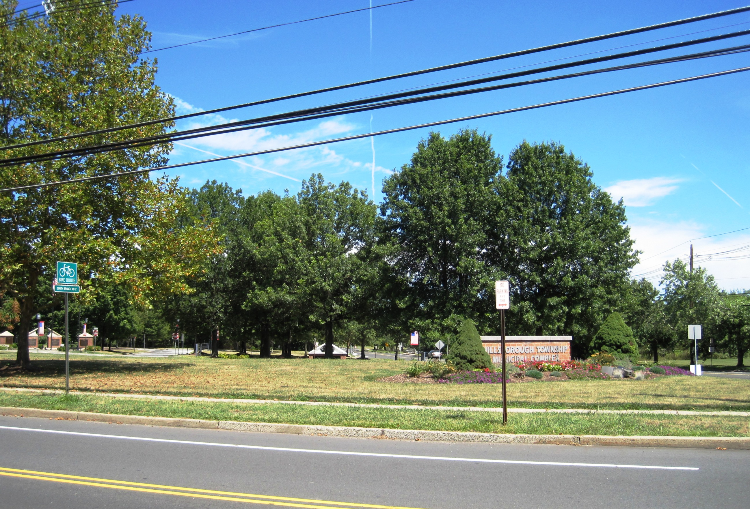 The municipal complex for Hillsborough Township, New Jersey. Photo taken at the intersection of South Branch Road (County Route 625) and Beekman Place.